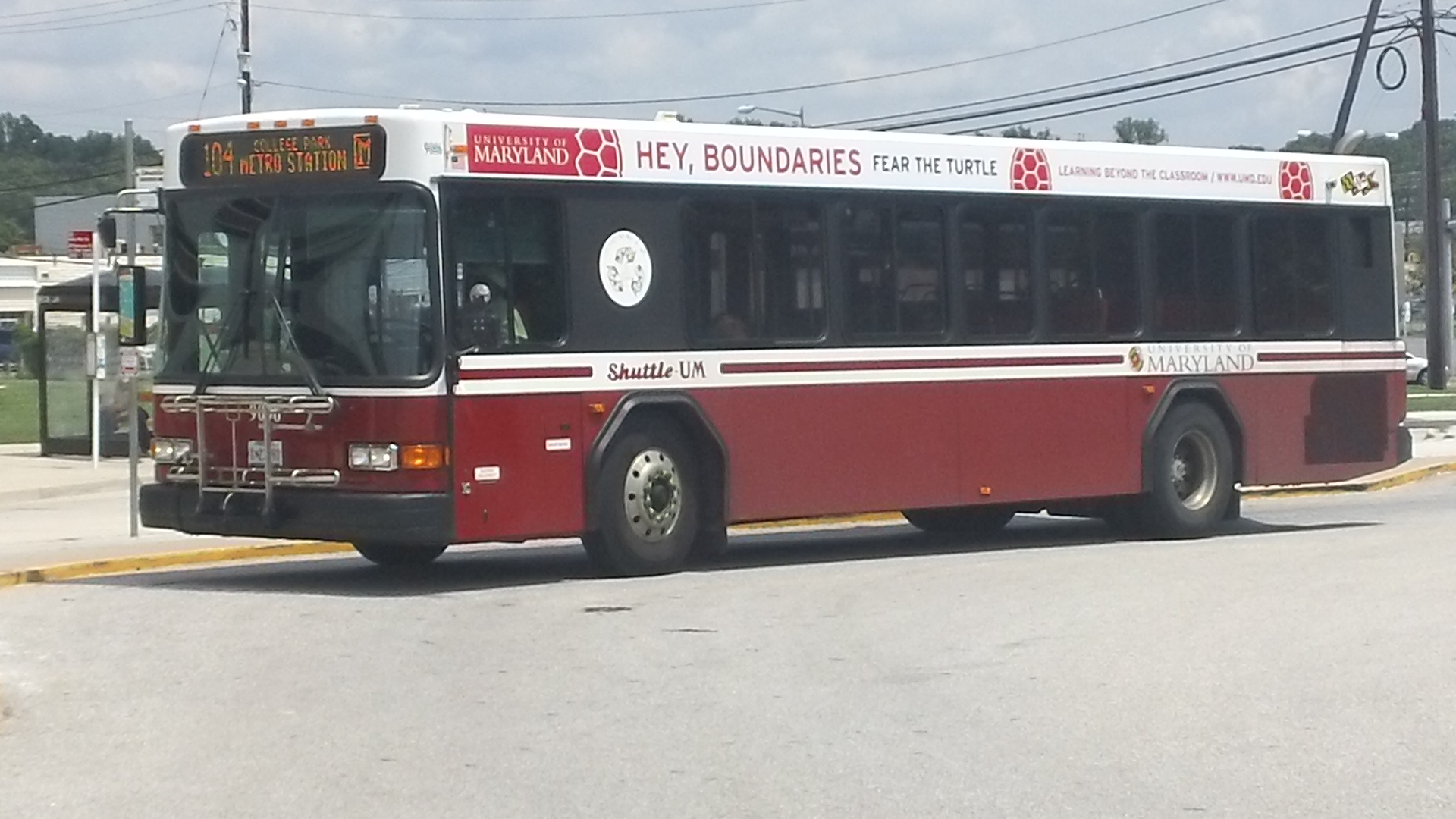 Giligs Advantage at College Park Station